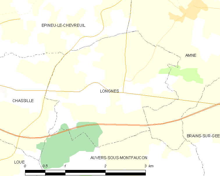 Map of French municipality